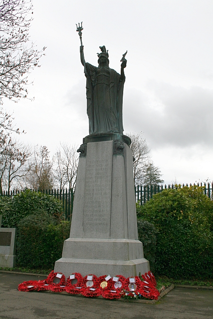 Morley War Memorial (2) Shortly after the Remembrance Day Ceremony. One of only two in the country cast in the patriotic image of Britannia and standing at 22ft tall, the war memorial is considered to be one of Leeds's finest and thousands of people attend a Festival of Remembrance here each year. Initially,the memorial was for men and boys who fell in the First World War – the names of those who perished in the Second were added later. Twelve bronze plaques either side bear all their names. With its upturned shield – signifying that war is over – supported on the head of four lions, the bronze sculpture was erected in 1927 at a cost of £2,500. Designed by Walter Gilbert, it was considered of such historic value that it was later given a grade II listing by English Heritage. It was unveiled by Alderman Joseph Kirk and accepted by Mayor Alderman Thomas Marshall on behalf of the people of Morley.